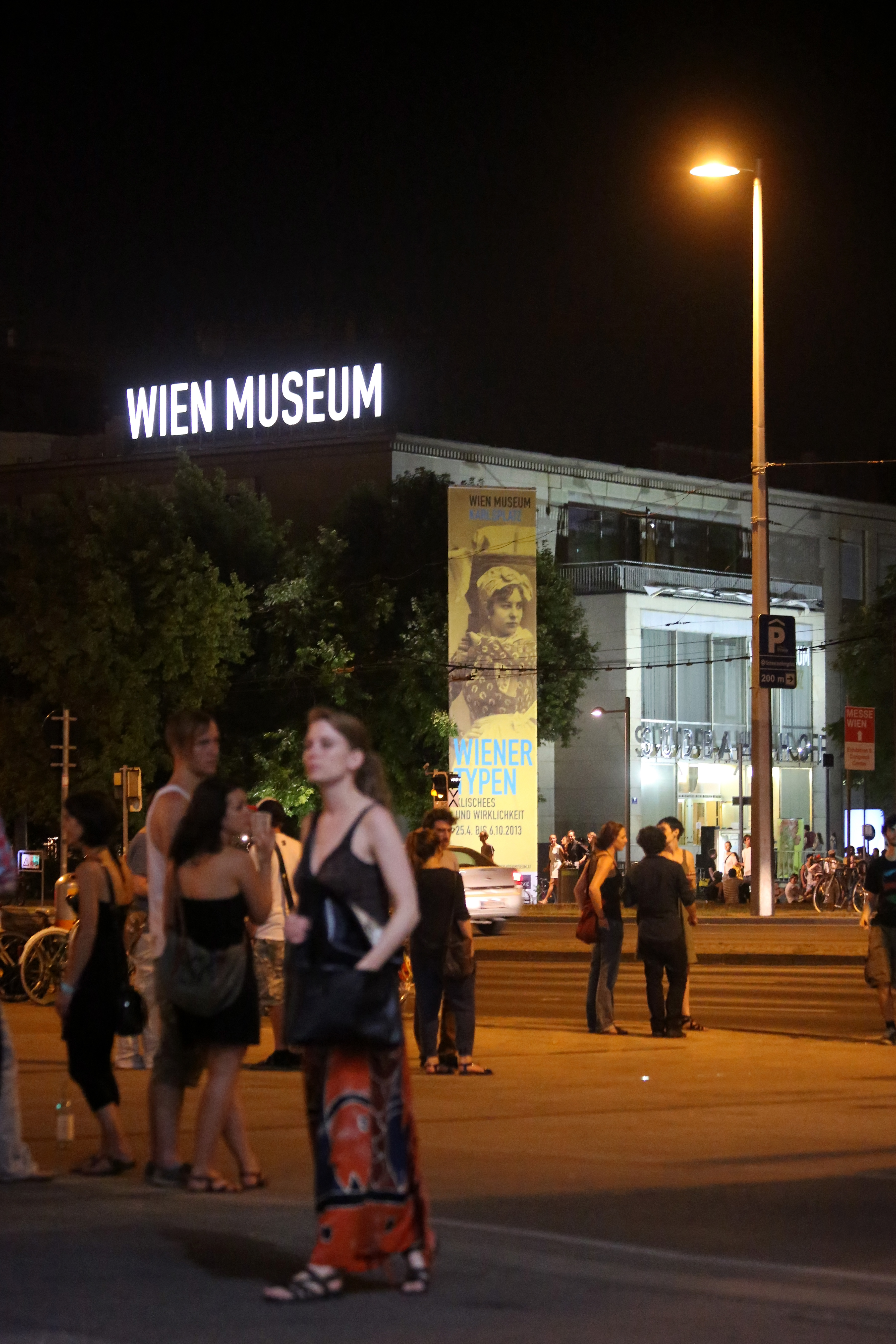 Vienna Museum at Karlsplatz in Vienna, Austria, during Popfest 2013.